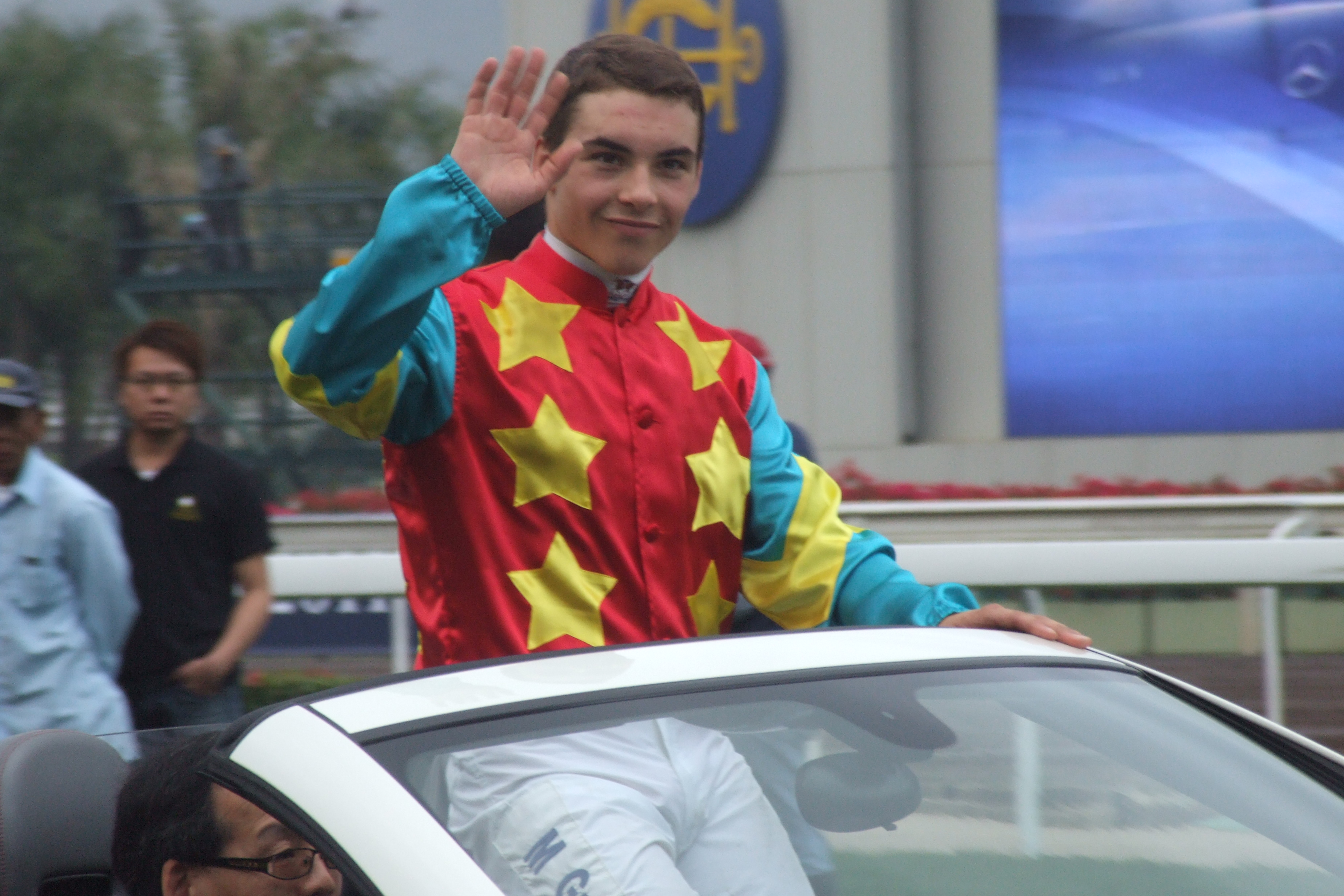 Maxime Guyon, french jockey